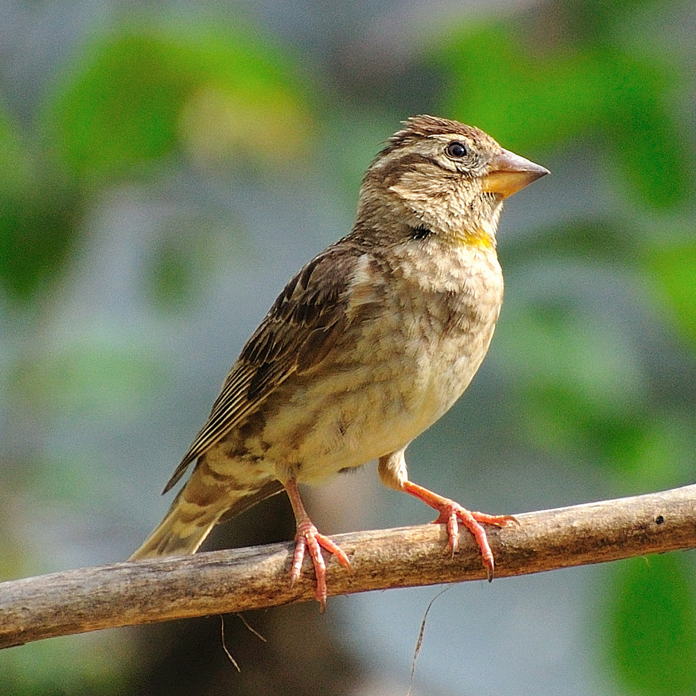 A Rock Sparrow in Ariege, Midi-Pyrenee, France.